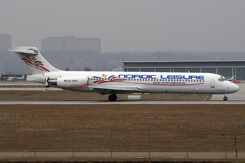 Nordic Leisure MD-87 (SE-RBA) at Stuttgart Airport